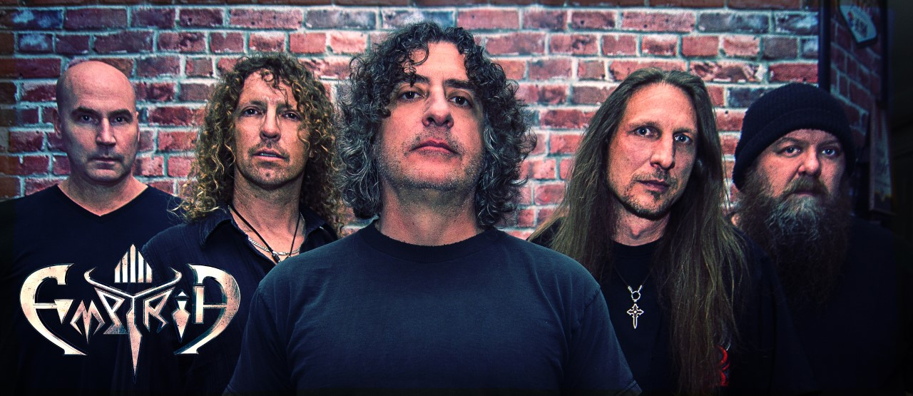 EMPYRIA 2019 Line-Up